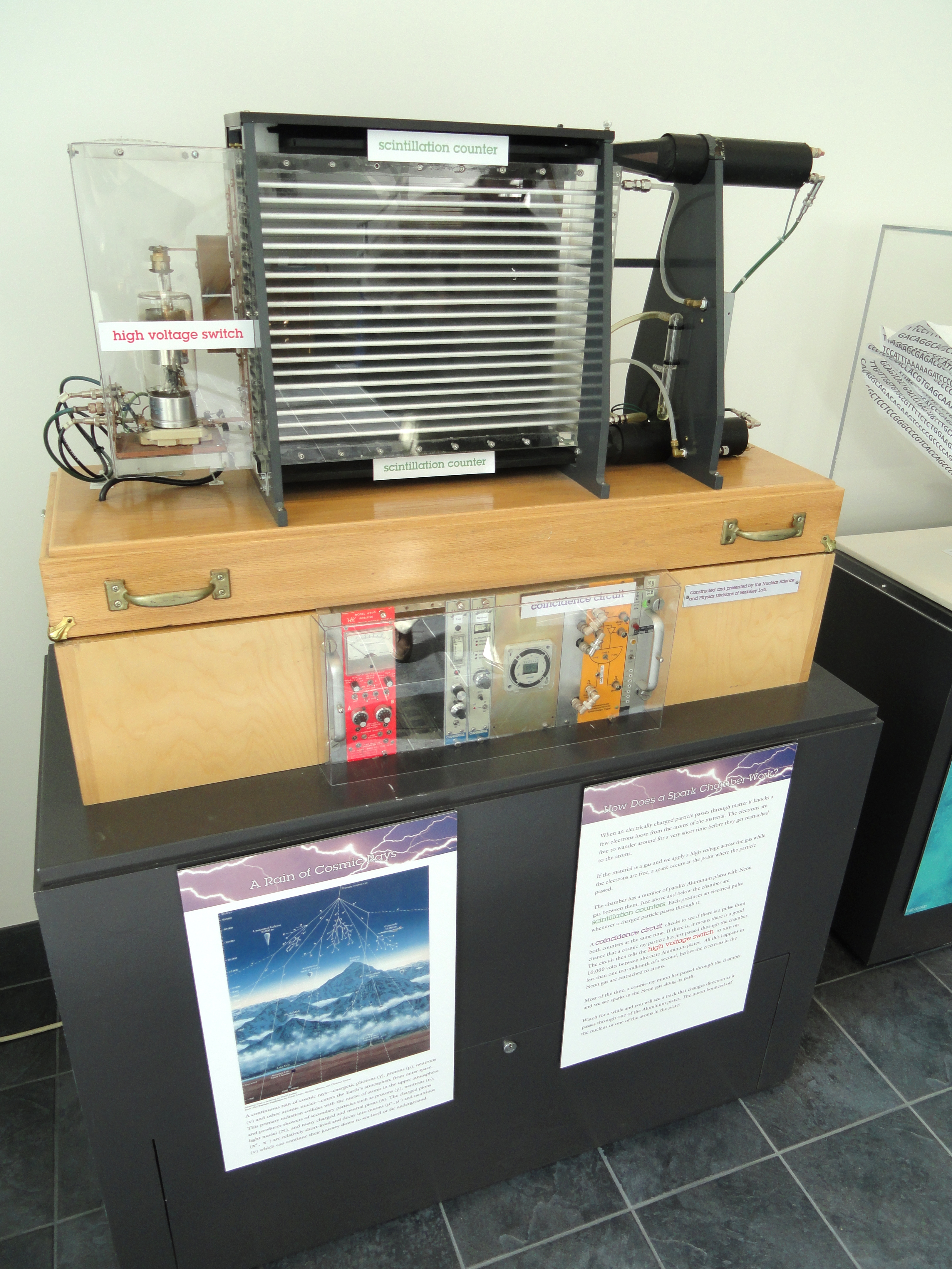 Public exhibit in the Lawrence Berkeley National Laboratory, Berkeley, California, USA. Spark chamber display.